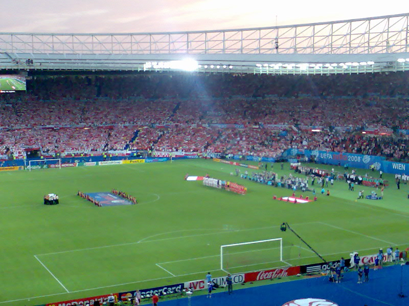 Vor Spielbeginn der Partie Österreich gegen Polen bei der Euro 2008 im Ernst-Happel-Stadion.